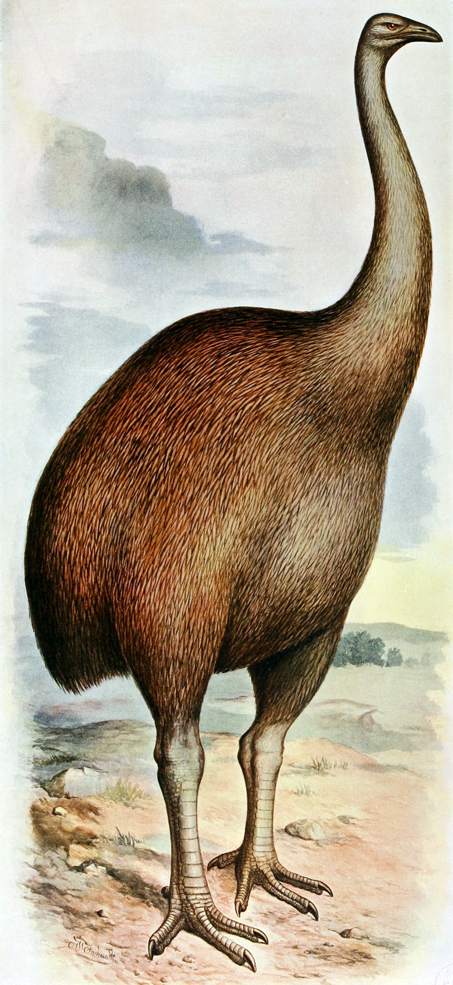 The giant moa (Dinornis novaezealandiae) is an extinct genus of ratite birds belonging to the moa family. It was endemic to New Zealand. In Rothschild's book 'Extinct Birds' this moa has been given the scientific name Dinornis ingens.